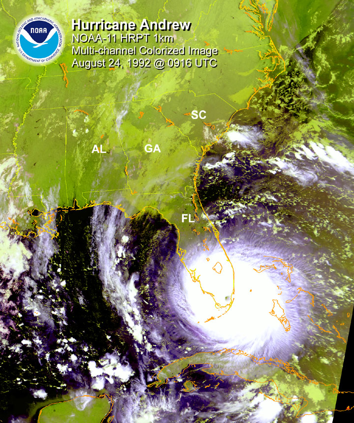 Hurricane Andrew landfalling in South Florida on August 24, 1992 with winds of up to 165 miles per hour. This satellite image was captured by NOAA-11.